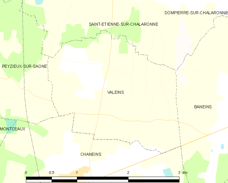 Map of French commune: Valeins Map commune FR insee code 01428.png